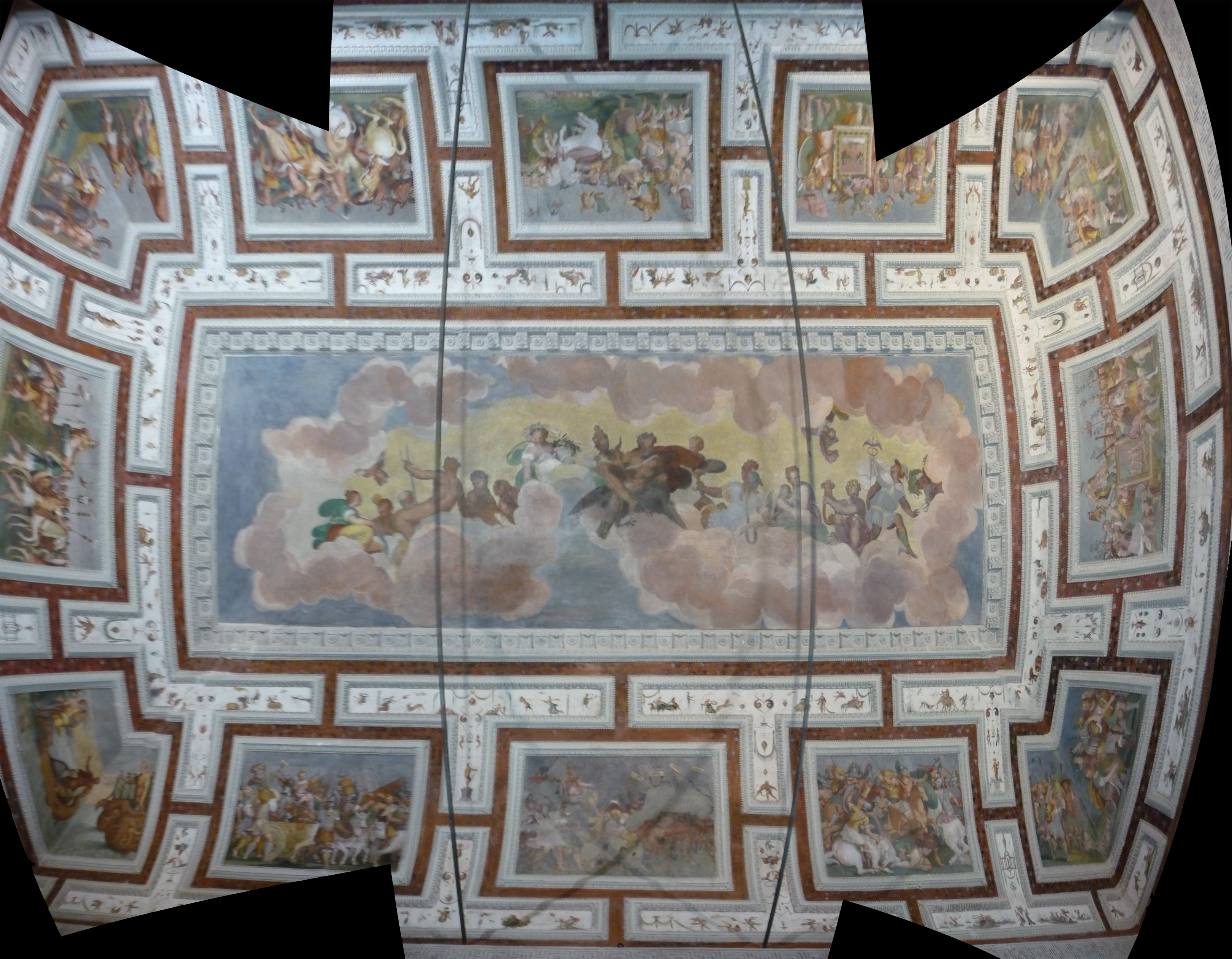 Frescos on the ceiling of the hall of Emperors (by Anselmo Canera and Bernardino India). Villa Pojana is a patrician villa in Pojana Maggiore, a locality of the Veneto region of (northern Italy). It was designed by the Renaissance architect Andrea Palladio.